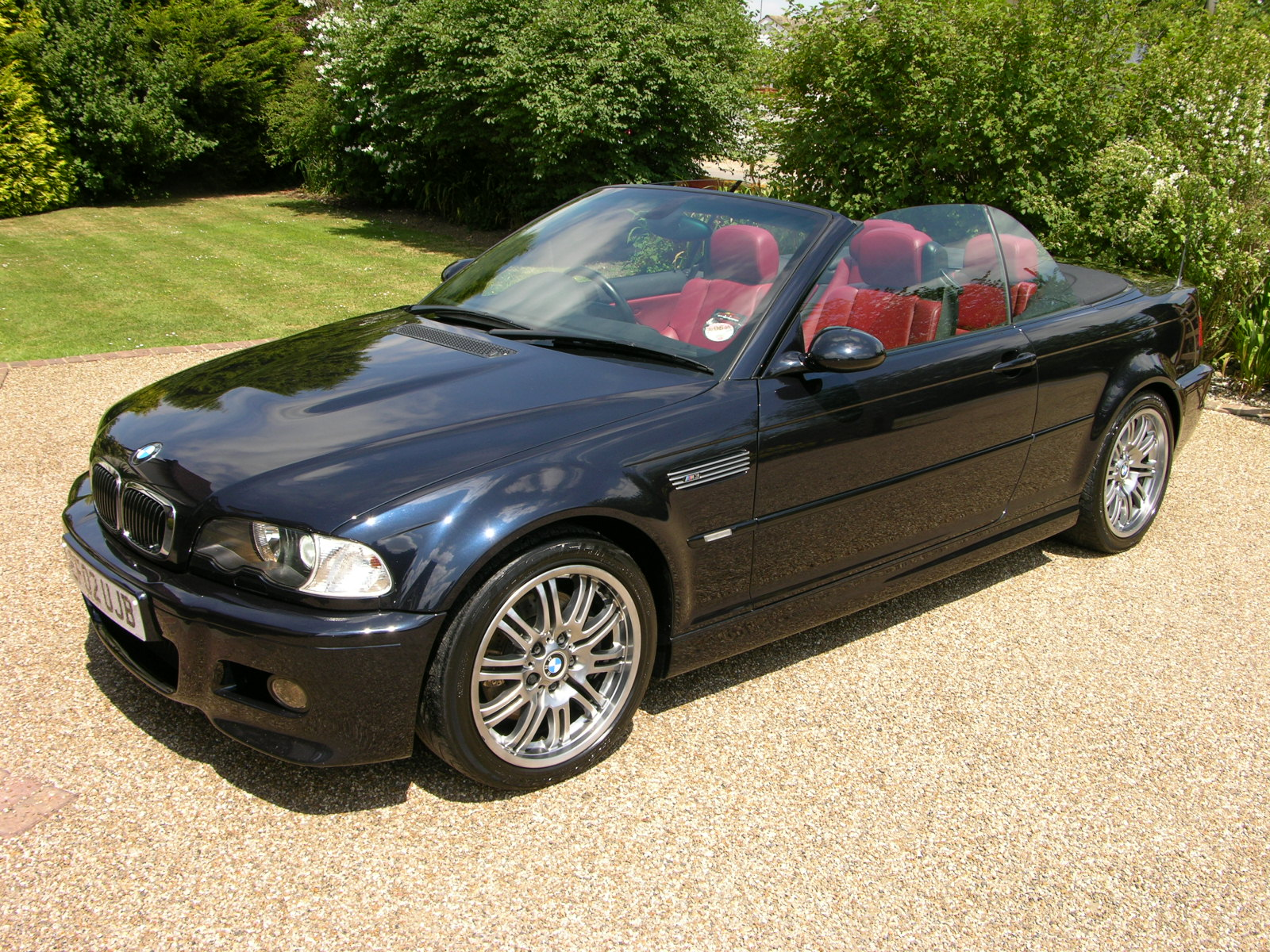 BMW M3 E46 Convertible